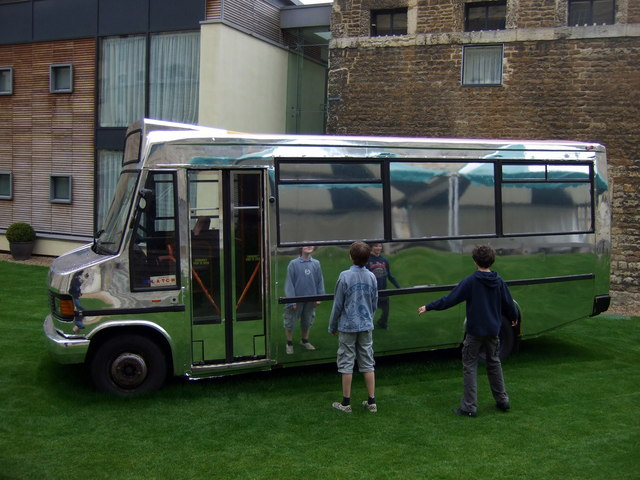 Art installation attracts attention The "elegant sick bus" by Sislej Xhafa was part of Modern Art Oxford's Transmission Interrupted exhibition in 2009 but sited here at the castle compound for the duration. At the start of the exhibition it was pushed through the centre of Oxford by a group of people in order to 'intervene in the space of the city' - somewhat ironic in the case of Oxford where a superfluity of ordinary buses routinely obstructs the streets!